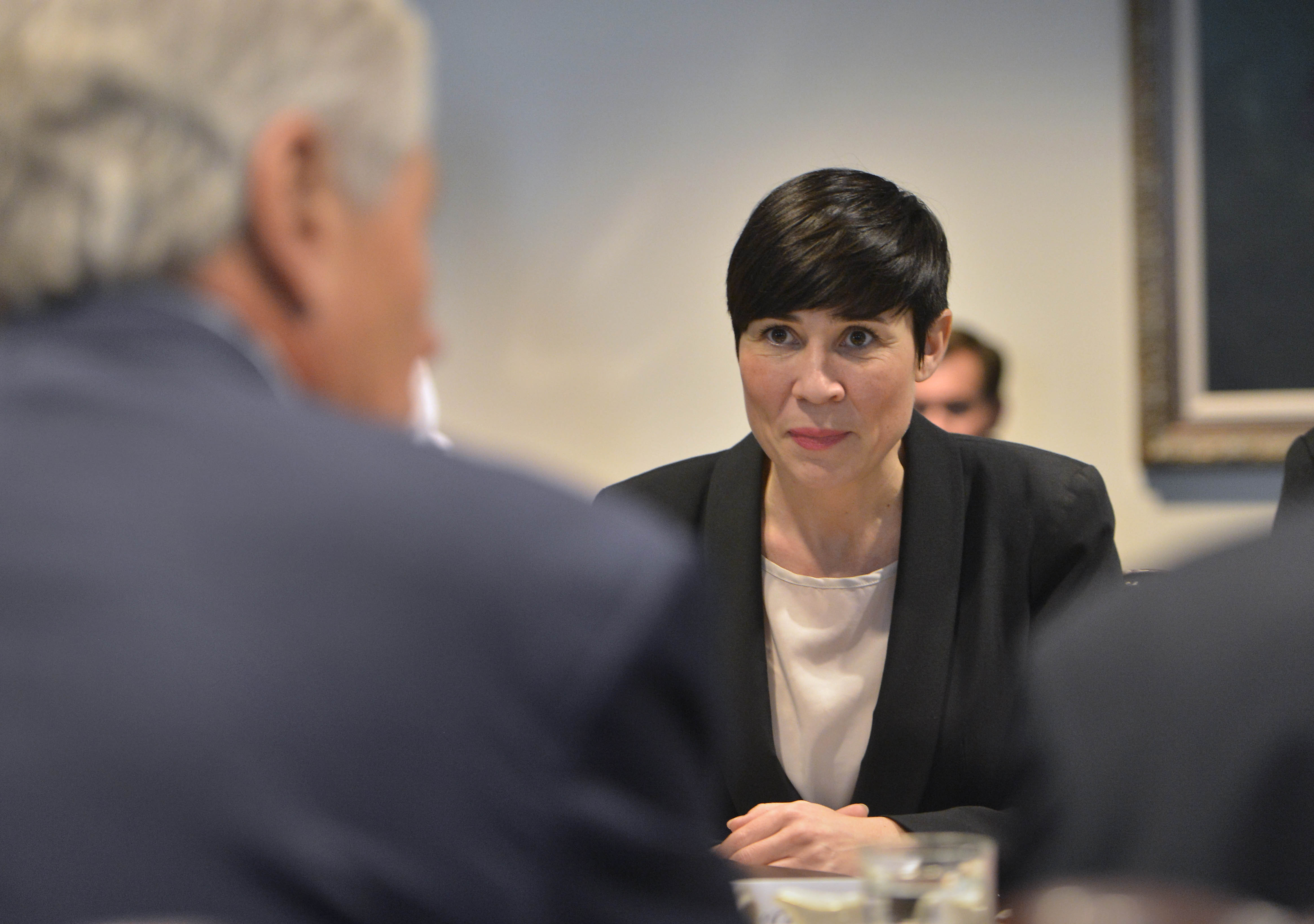 Norwegian Minister of Defense Ine Eriksen Søreide, right, meets with U.S. Secretary of Defense Chuck Hagel at the Pentagon in Arlington, Va., Jan. 10, 2014.